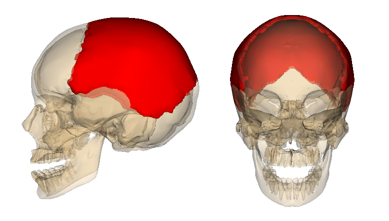 parietal bone from Anatomography[1] maintained by Life Science Databases(LSDB).